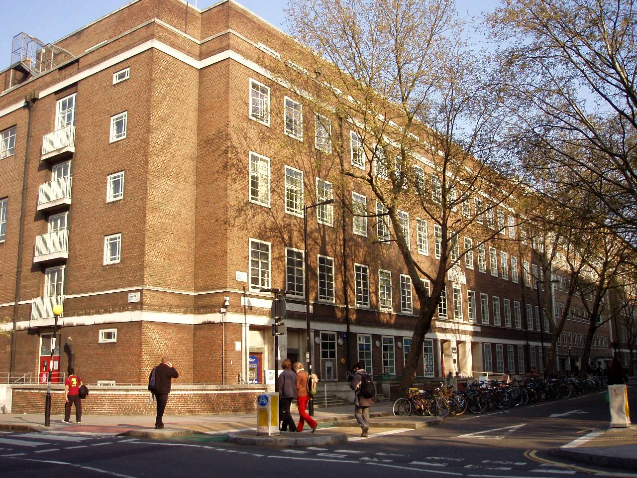 University of London Union, Malet Street, London, England, WC1E 7HY. It is often called ULU.